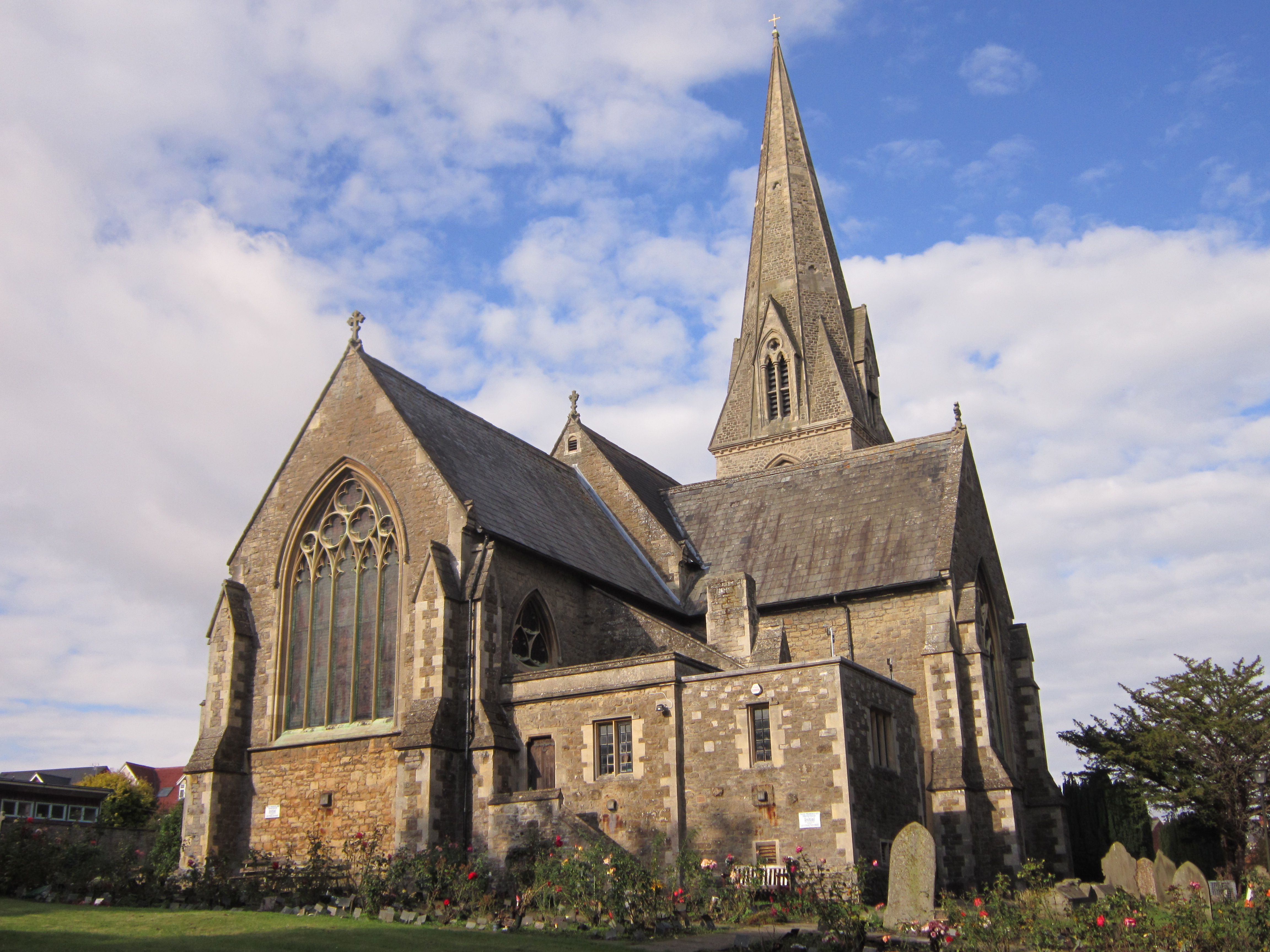 Christ Church, Swindon: view from the northeast, showing the chancel (left), spire (centre) and north transept (right)